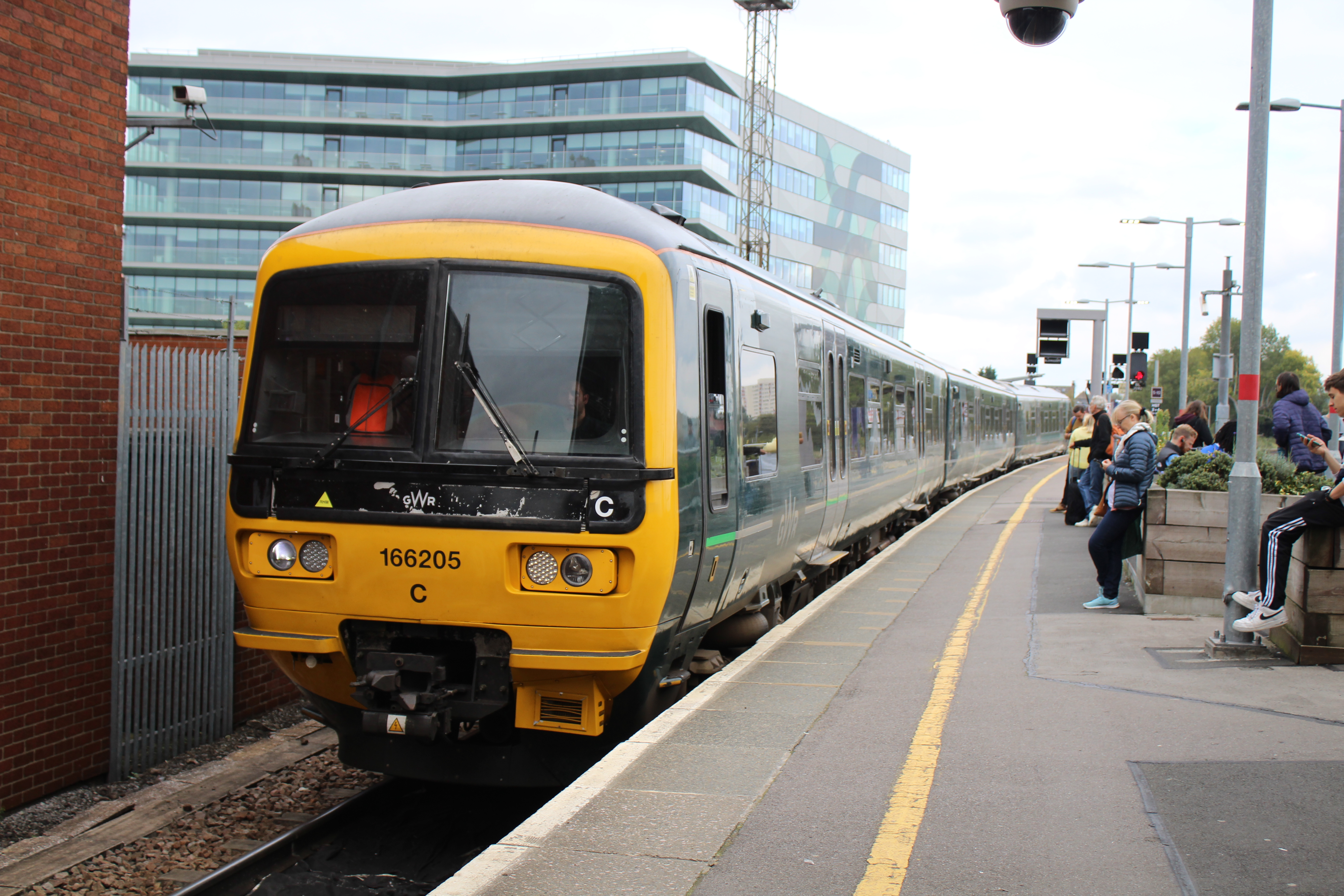 166205 arrives into platform 1 at Bristol Temple Meads with a service from Severn Beach.